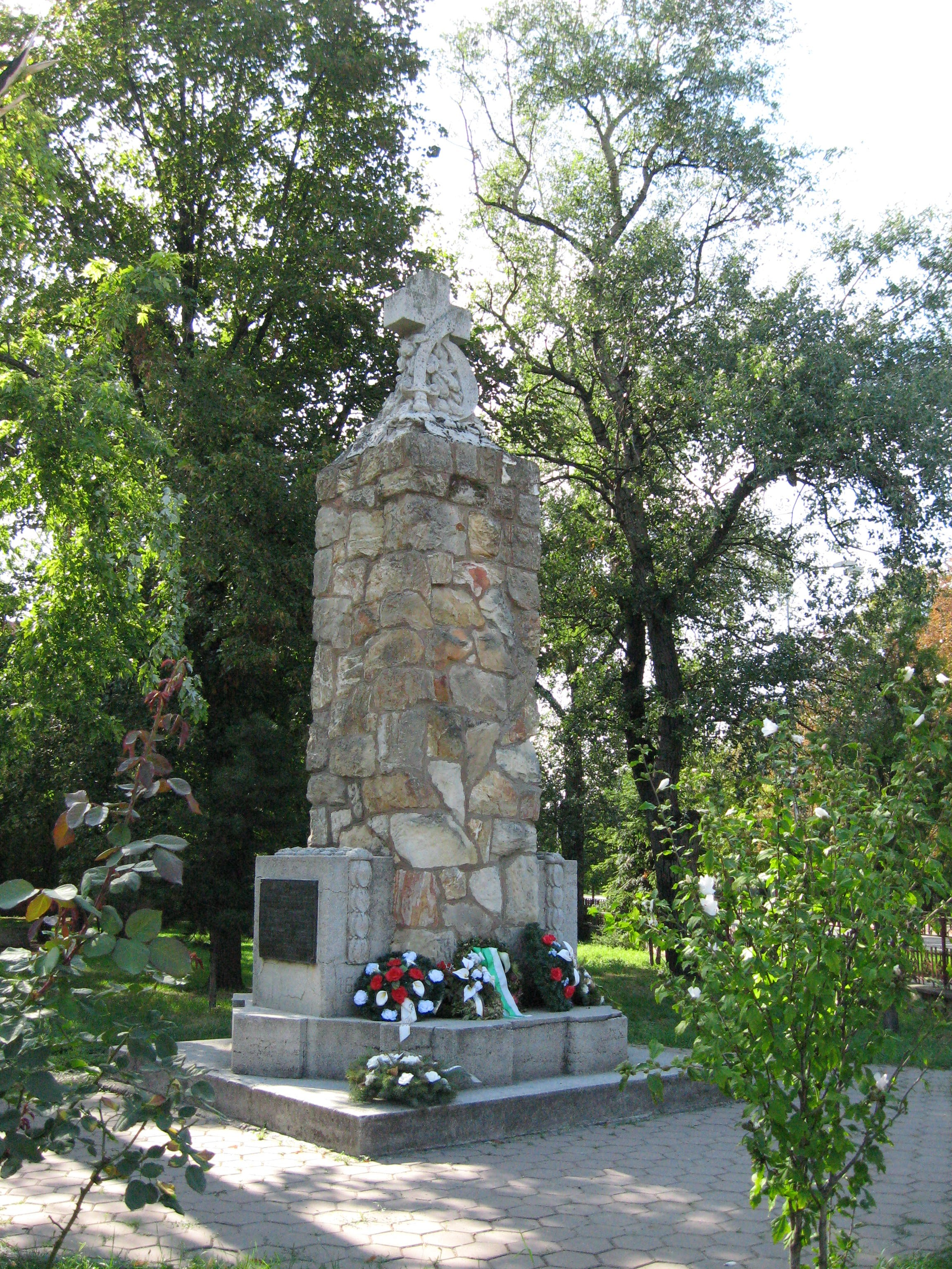 Memorial of Turkish occupation (1663-1685) in Nové Zámky